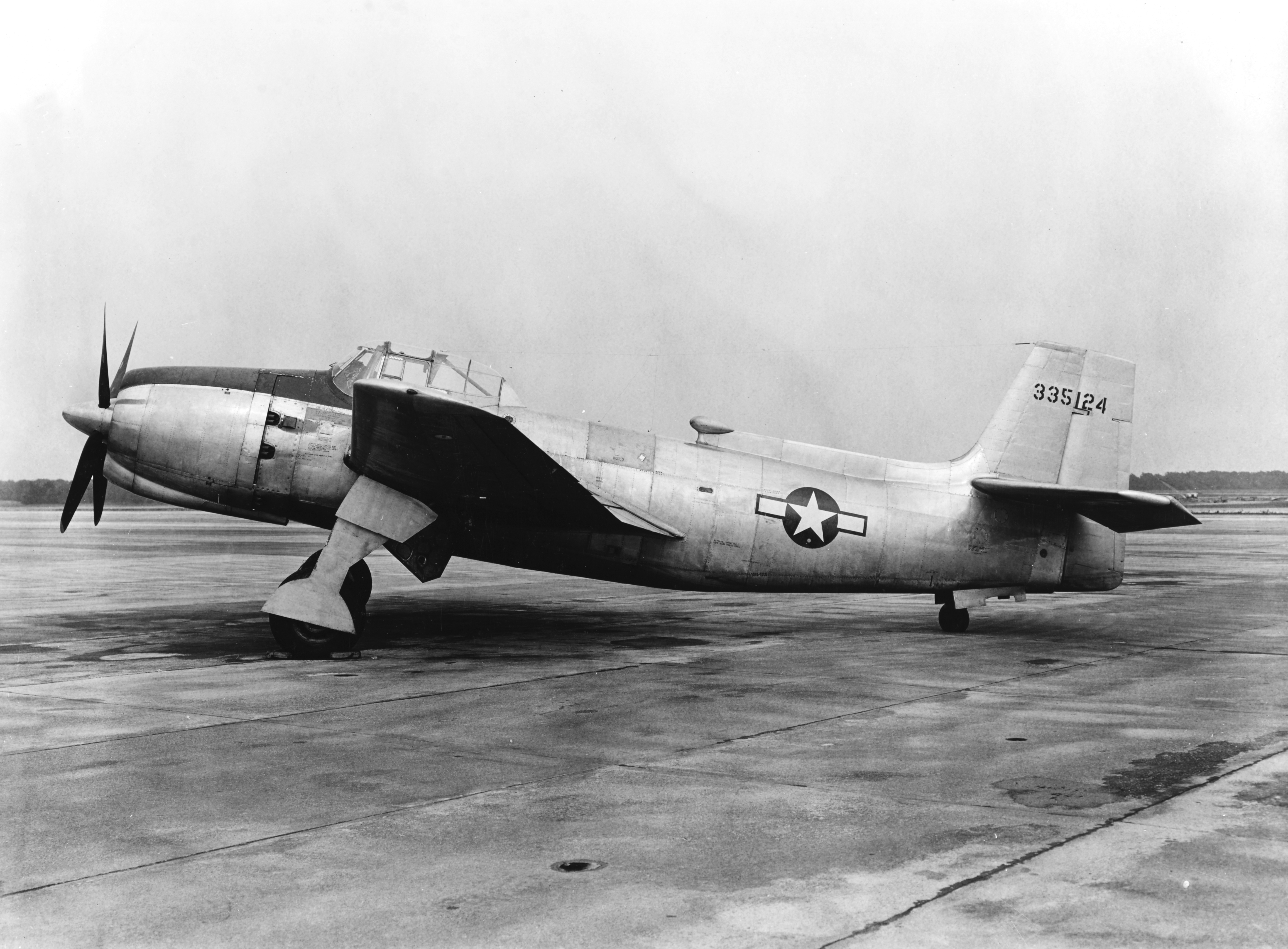 The sole U.S. Army Air Forces Vultee XA-41 (s/n 43-35124) at the Naval Air Test Center Patuxent River, Maryland (USA), on 18 September 1944.